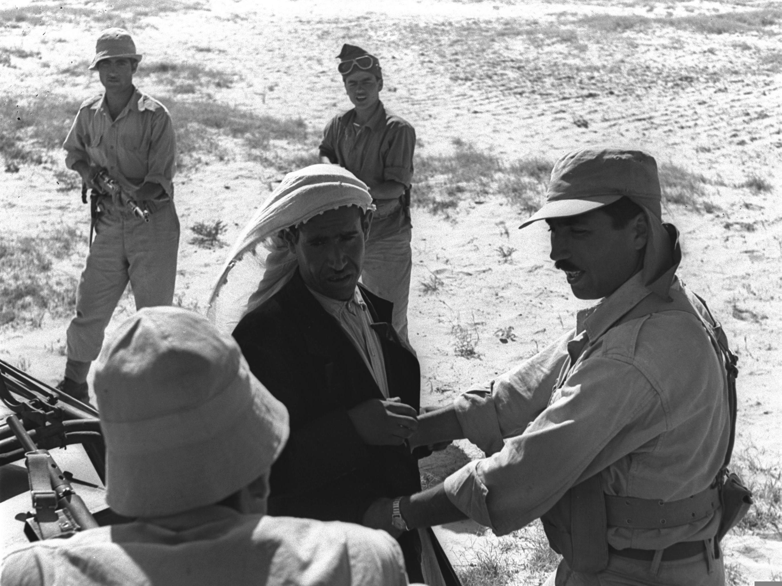 Original Description: AN INFILTRATOR IS CAUGHT AND IS BEIN SEARCHED FOR WEAPONS. HE WAS LATER RELEASED.